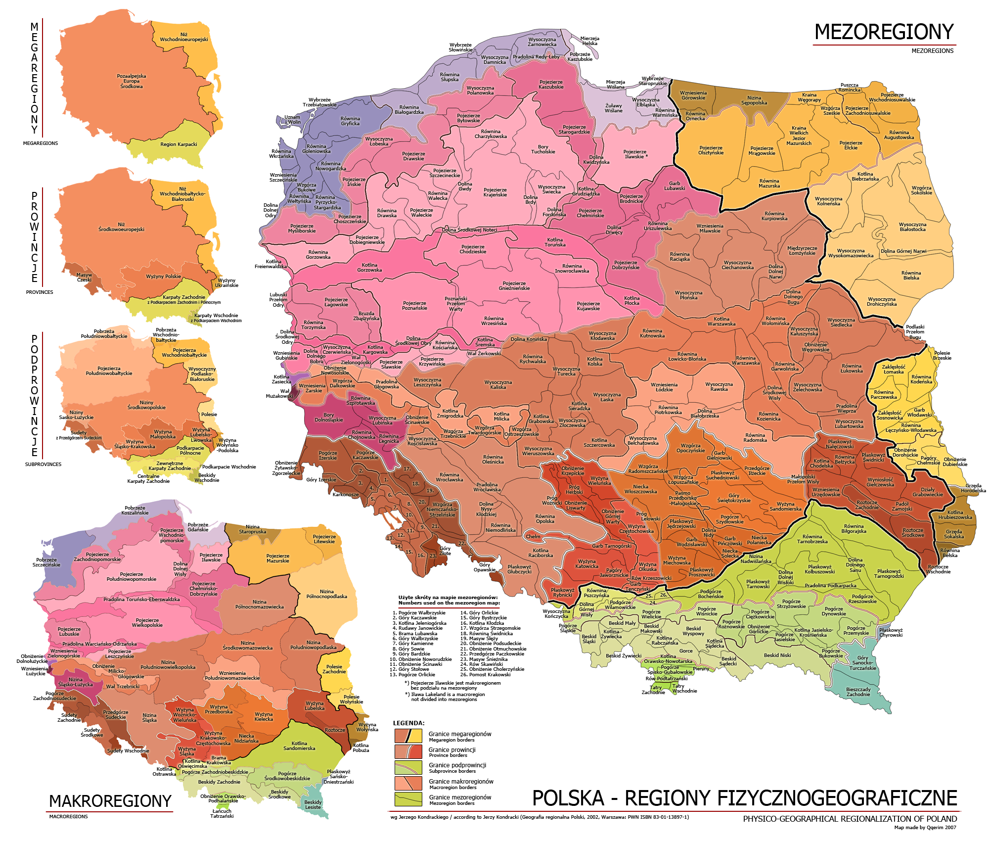 Physico-geographical regionalization of Poland, based on Jerzy Kondracki (Geografia Regionalna Polski, 2002, Warszawa, PWN, ISBN 83-01-13897-1)